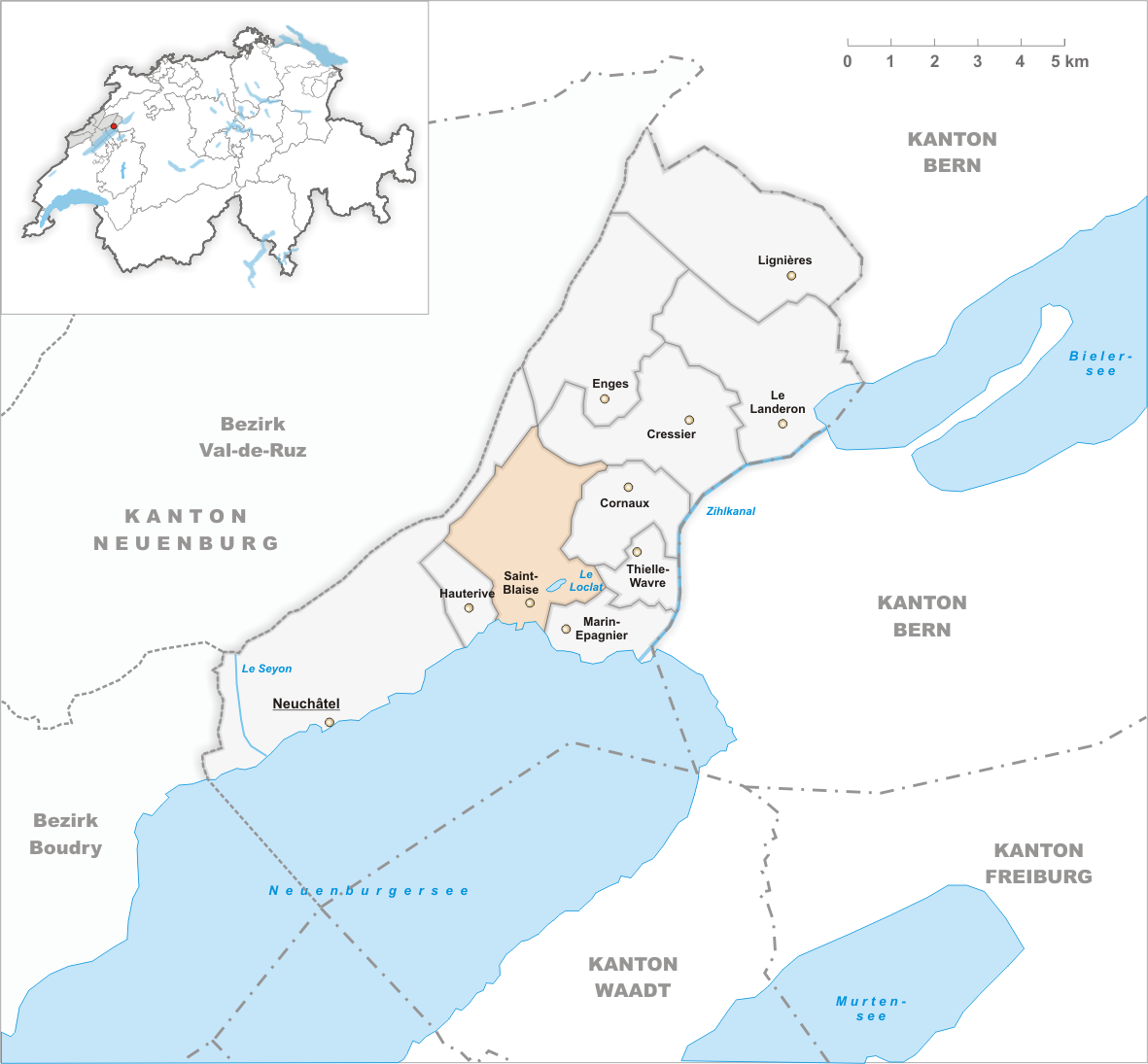 Municipality Saint-Blaise